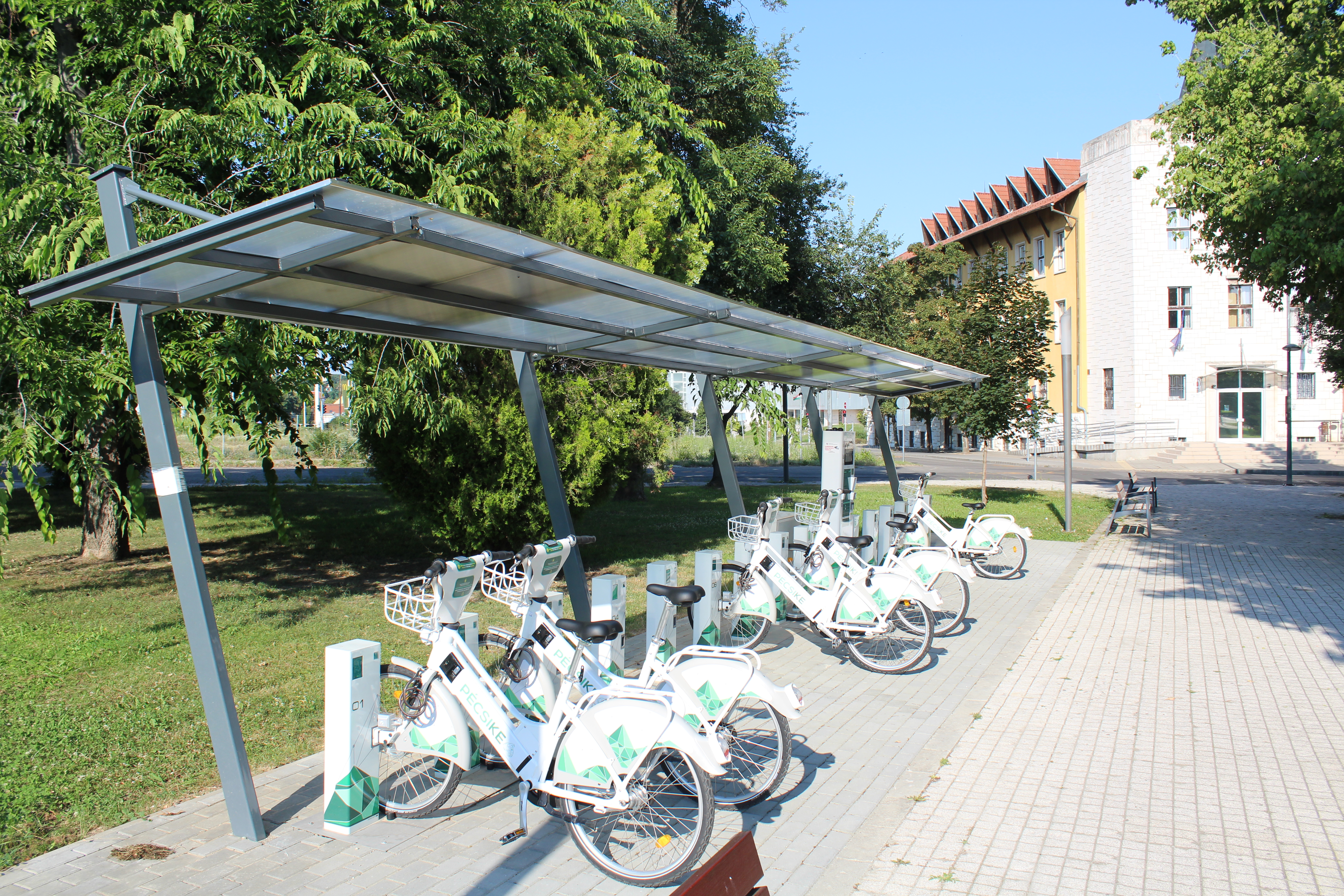 PécsiKe bicycle-sharing system's docking station in Pécs.